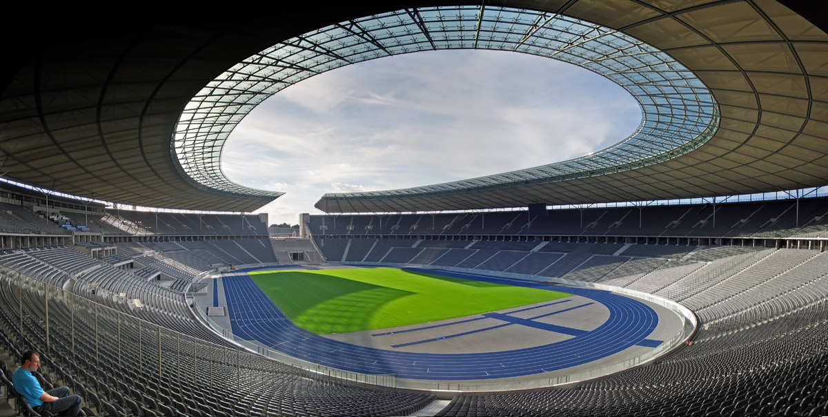 Panoramic view of the Olympic Stadium in Berlin. Author: Chris Jones